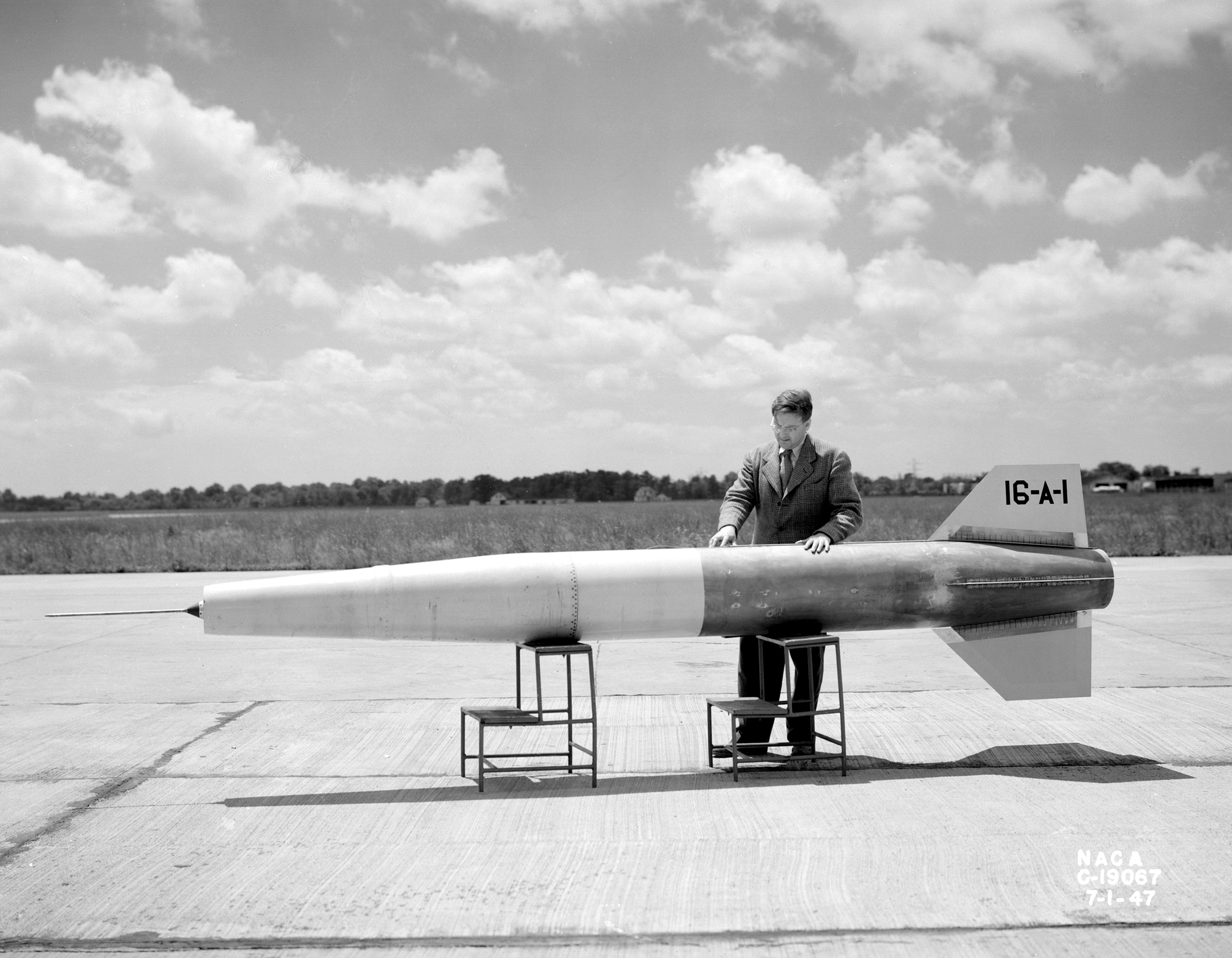 A ram jet missile in 1947.